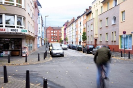 The picture shows the Sankt-Johann-Straße in Duisburg